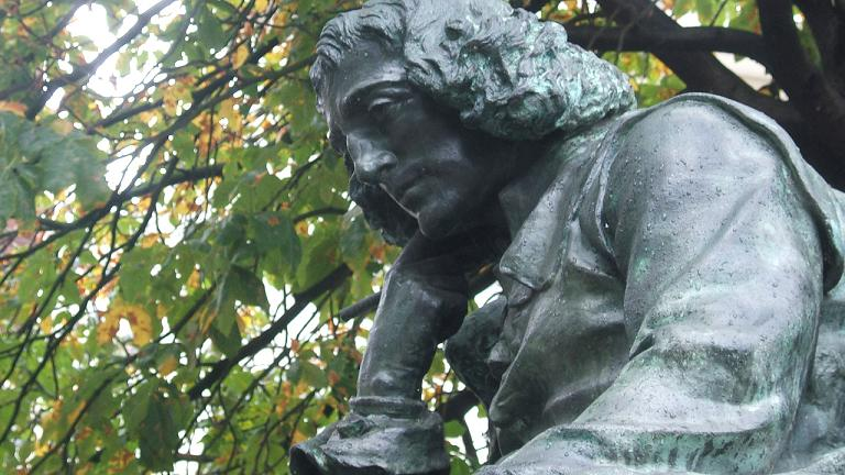 Close up from Spinoza's statue in The Hague. Statue erected in 1880.